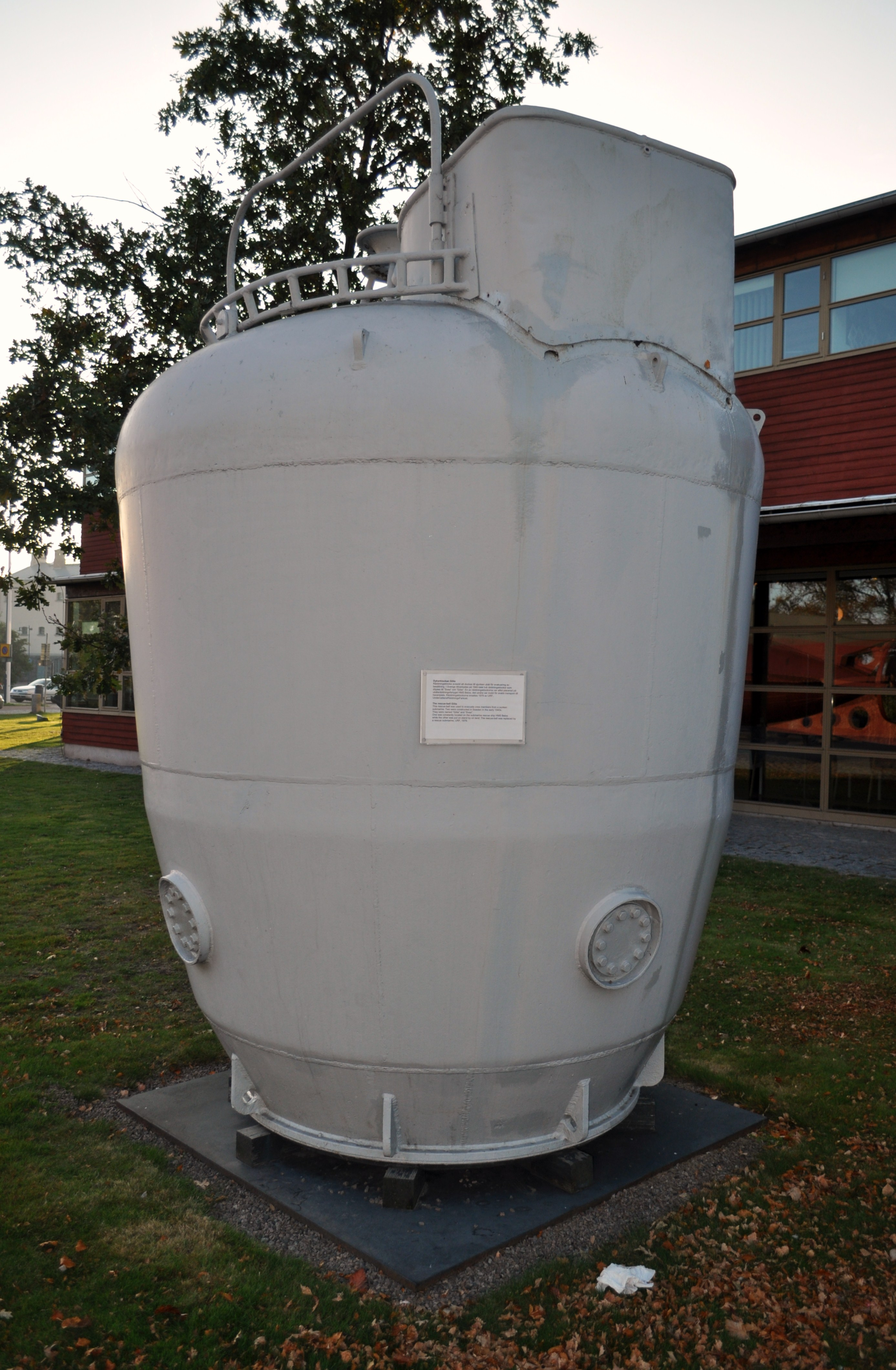 A Diving bell or rescue bell from Swedish Navy from the early of 1940 to use to dock a submarine, by Marinmuseum